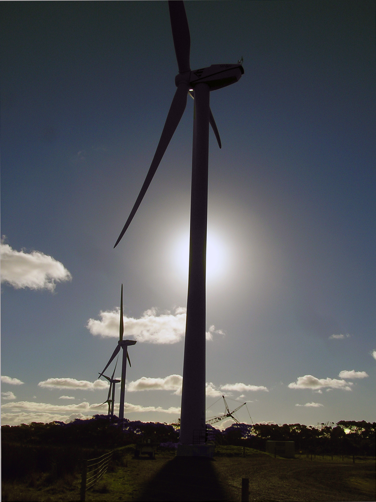 One of the 6 turbines at the Wonthaggi Wind Farm, Victoria, Australia